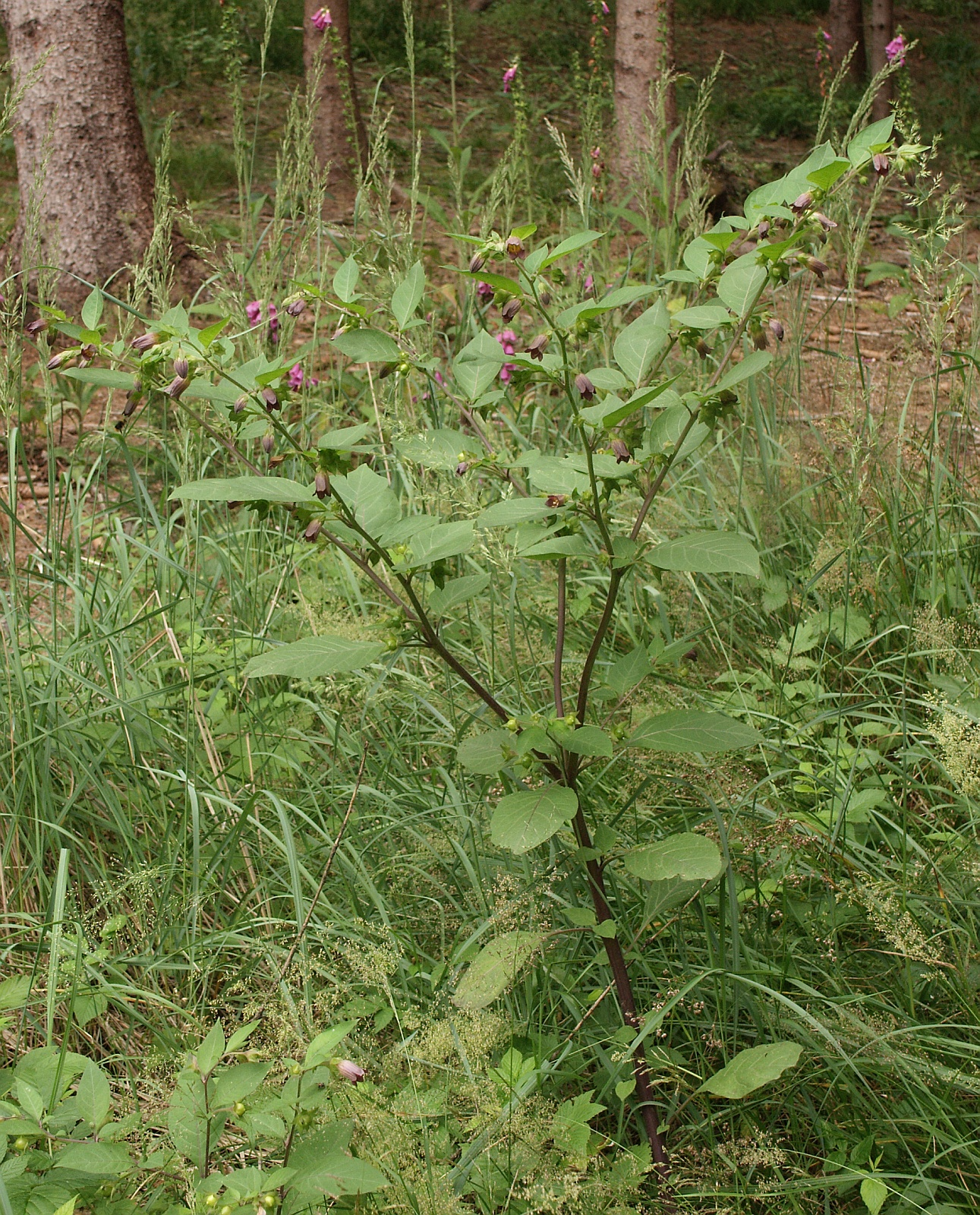 Atropa belladonna, in the background Digitalis purpurea